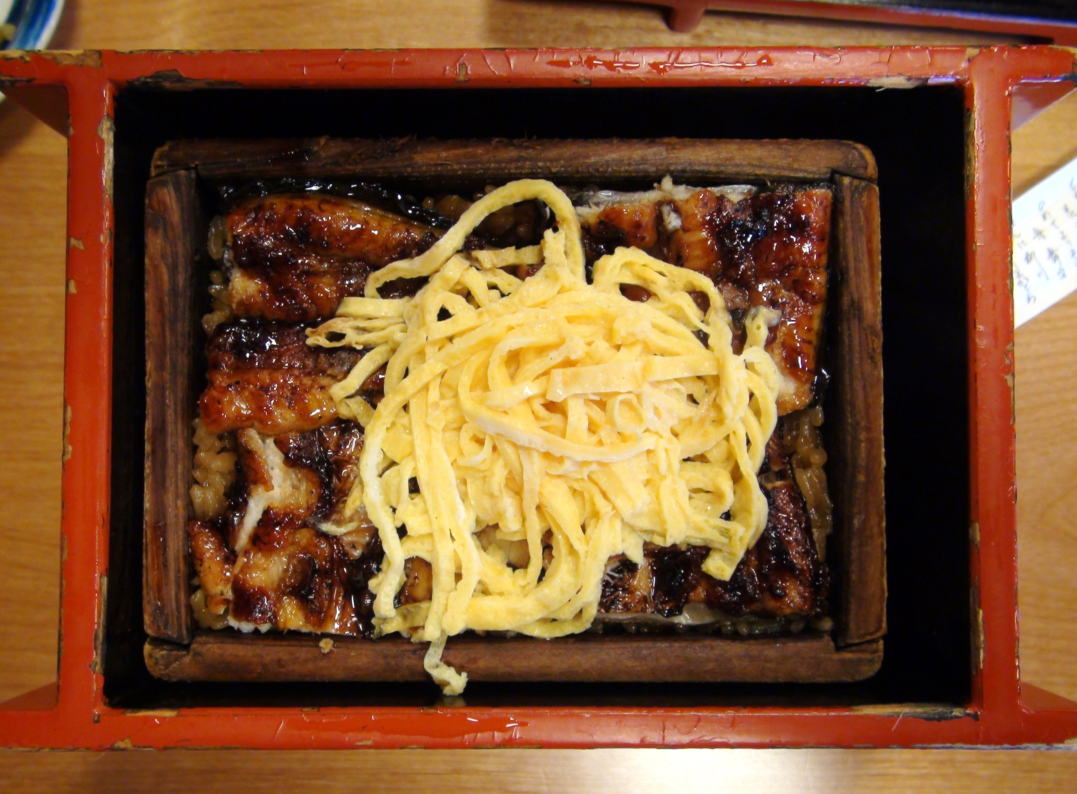 Yanagawa eel steamed in a basket